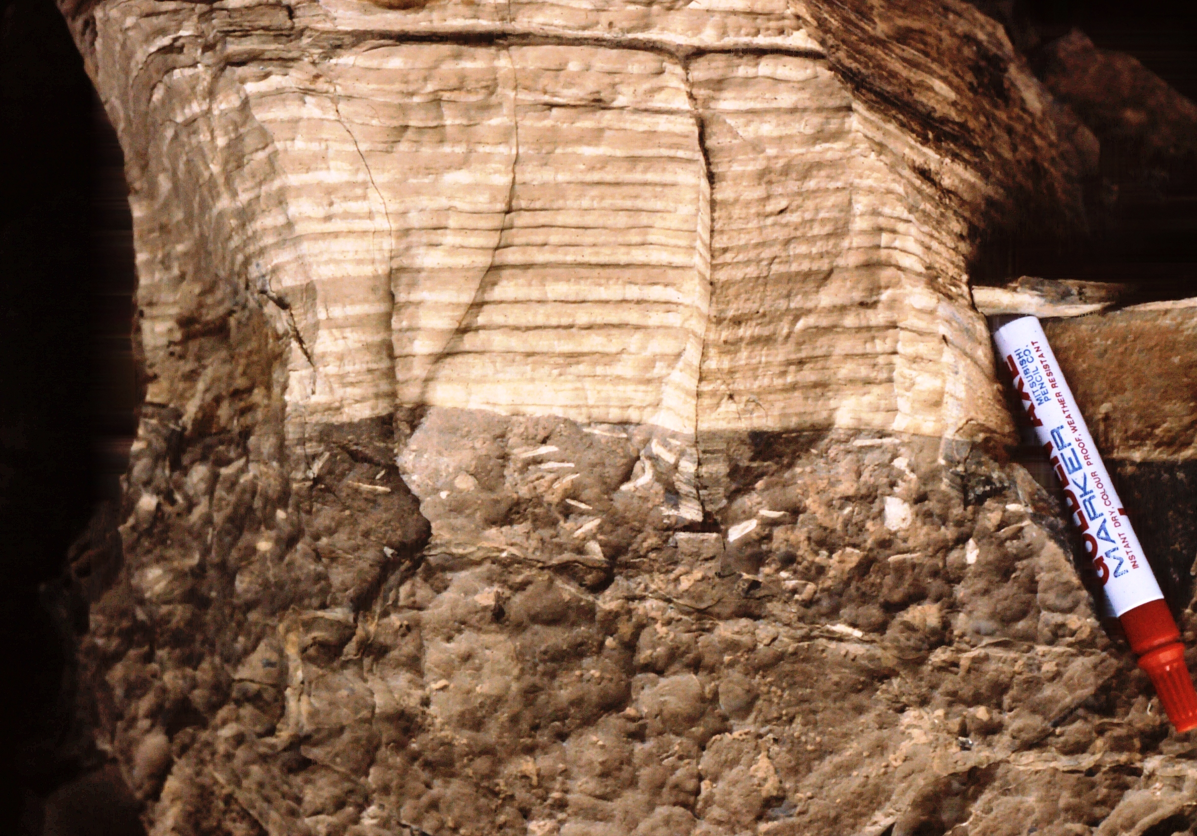 "Shallowing upward" metric sequence of autocyclic origin in the carbonate platform of middle Lias age in the High Atlas Mountains of Morocco. Lagoonal to intertidal deposit with algal mats; early diagenesis, dolomitization (in yellow) in a supratidal environment on top, with tidal and hurricanes deposits, floated foraminifera and breccias (Davaud & Septfontaine, 1995).